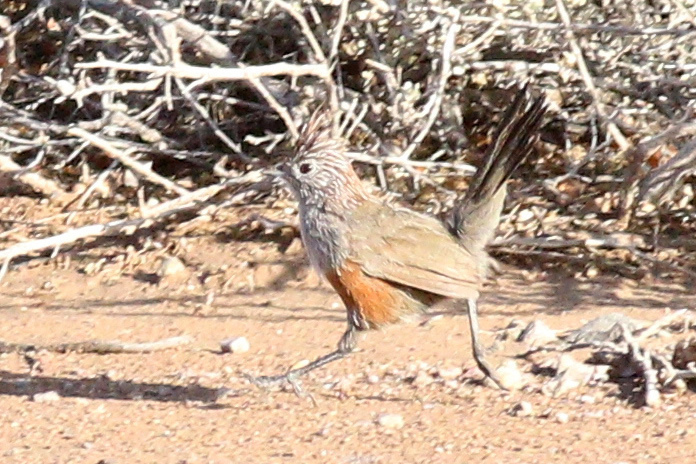 Rhinocrypta lanceolata, Crested Gallito, Argentina